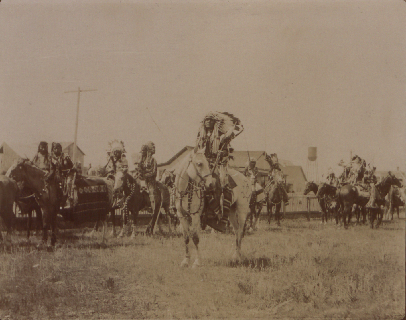 Original caption: “Chief Joe Healy and braves.”